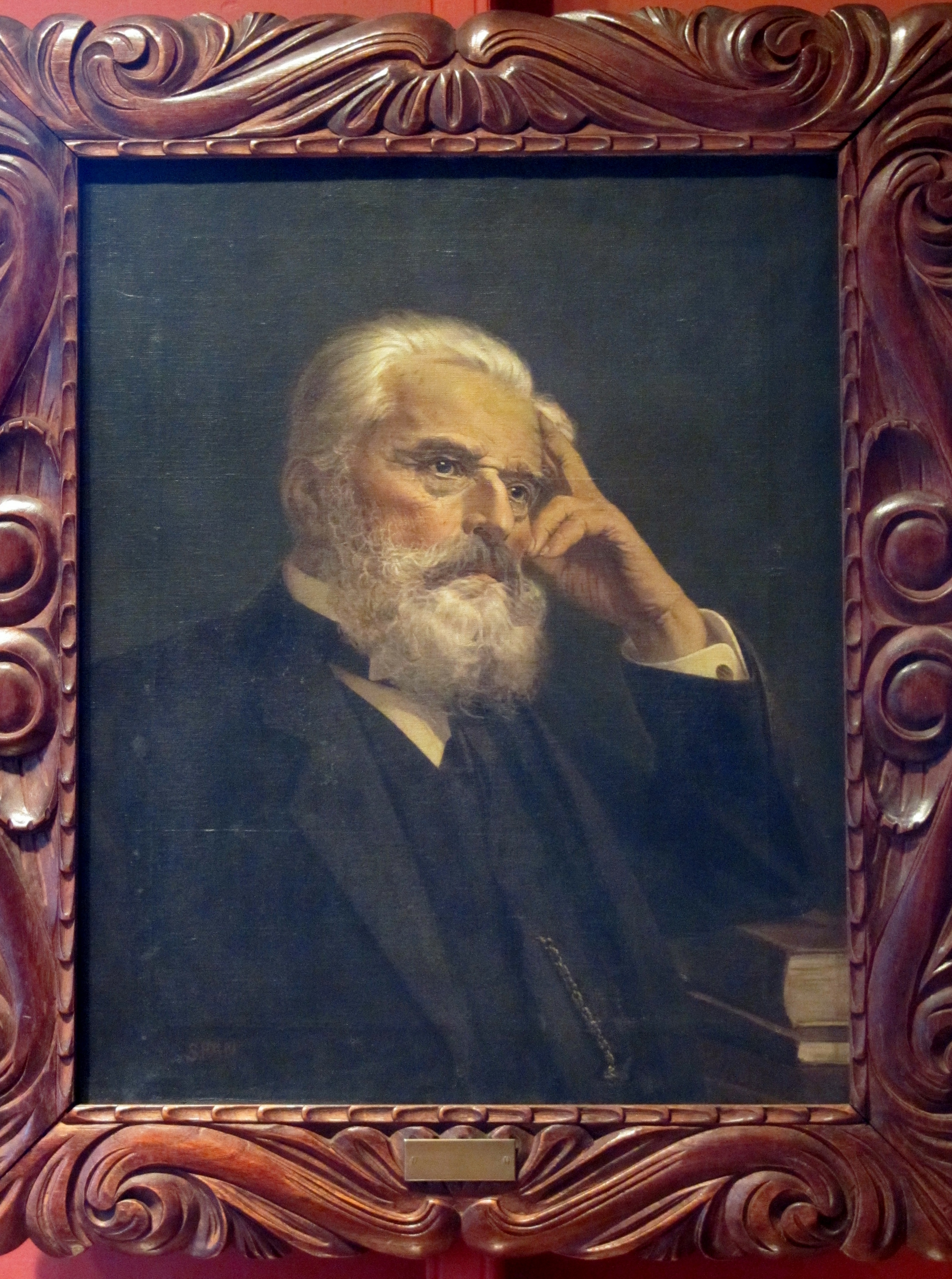 Portrait of José Joaquín Rodríguez, president of Costa Rica 1890-1894